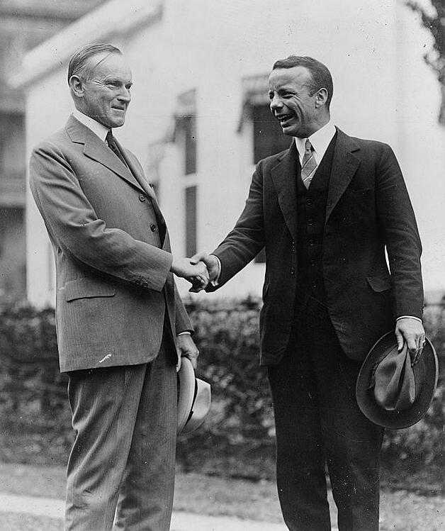 Theodore Roosevelt, Jr. [right] shaking hands with President Calvin Coolidge [left], September 26, 1924